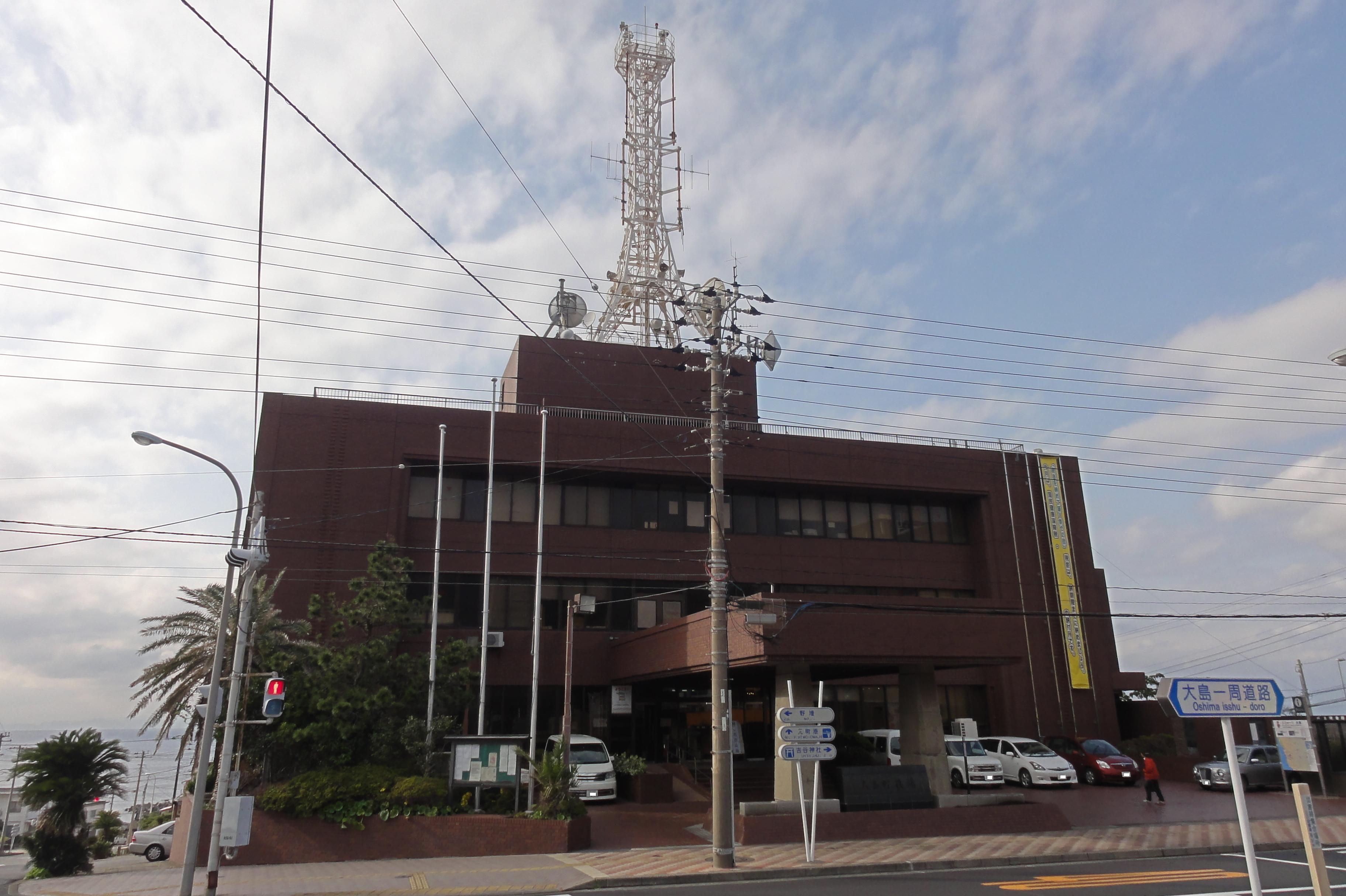 Oshima town office, Izu Islands, Japan